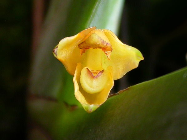 Heterotaxis valenzuelana